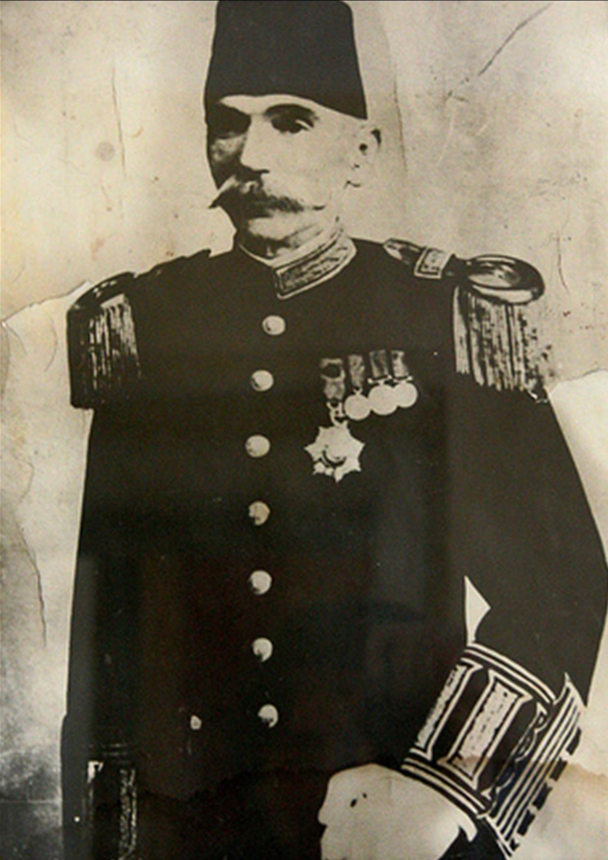 Halitb Bey Berzeshta